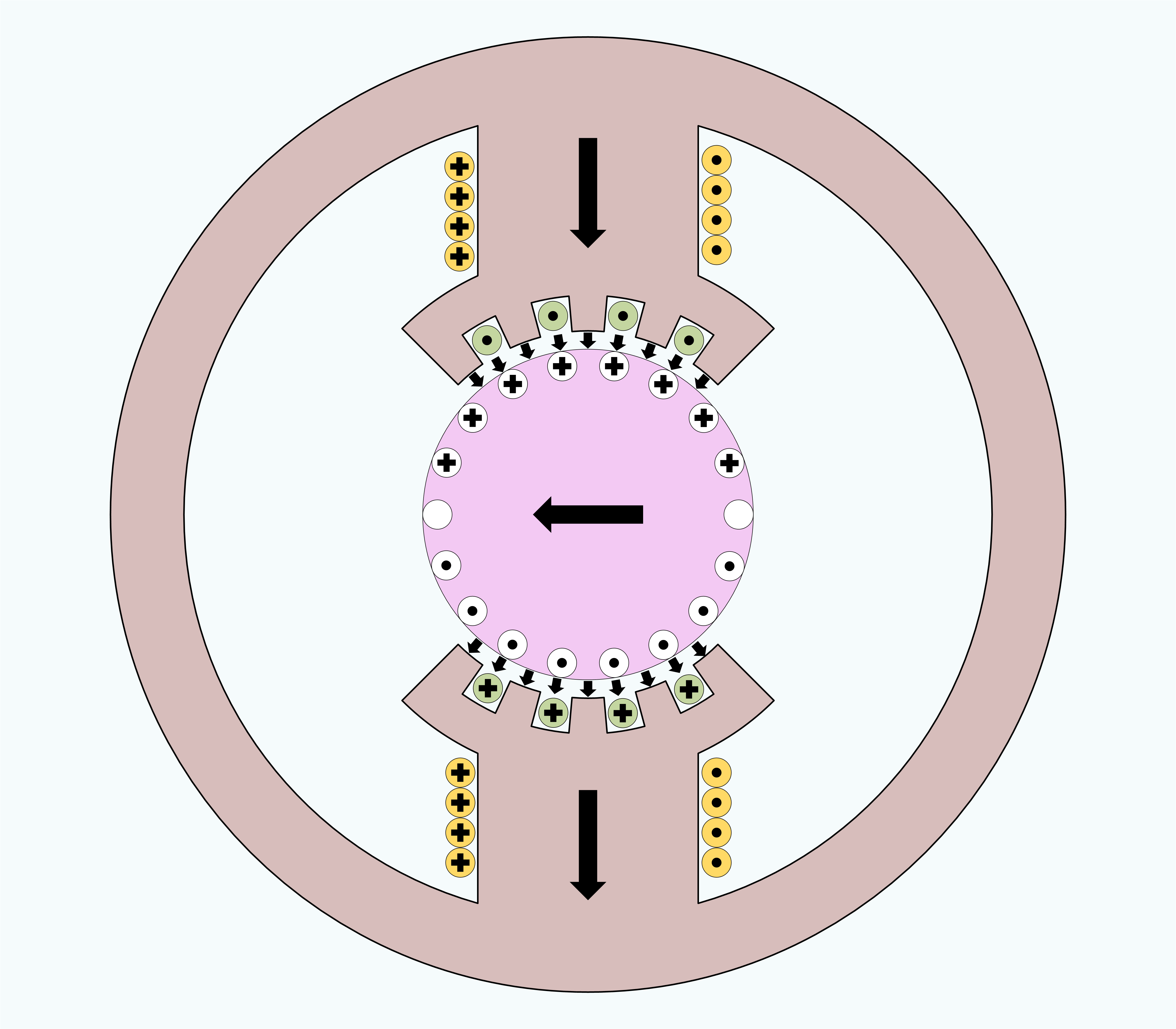 Cross section of DC motor with compensation windings showing magnetic flux due to field and armature under heavy load with compensation windings.